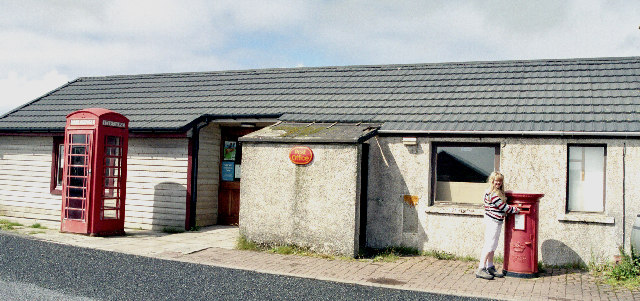 Baltasound Post Office, Unst, Shetland - most northerly in Britain Following the closure of Haroldswick Post Office (see HP6312), this is now the most northerly post office in Britain. With its own special postmark to prove it!